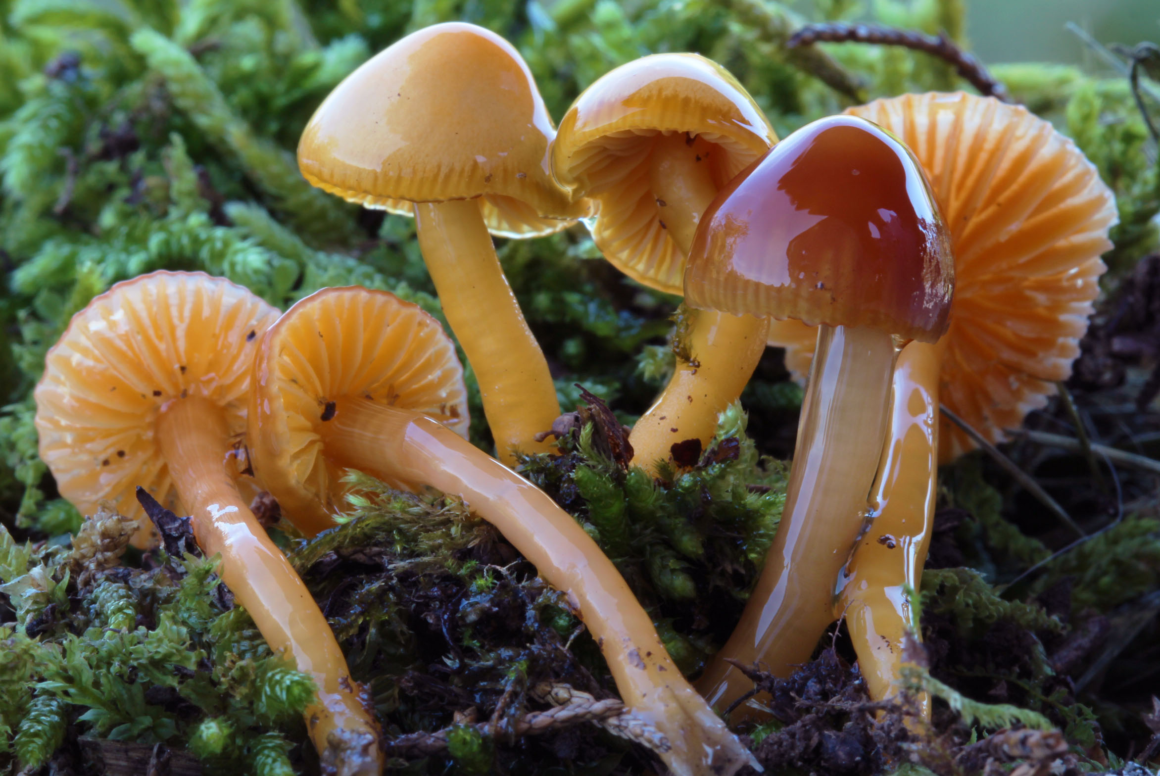 Hygrocybe psittacina var. perplexa (A.H. Sm. & Hesler) Boertm. Image location: Kahite Trail, Vonore, Tennessee, USA On moss covered soil under Juniperus virginiana. The moss in the photo is Bryoandersonia illecebra -————- CCB131 Recognized by sight For more information about this, see the observation page at Mushroom Observer.